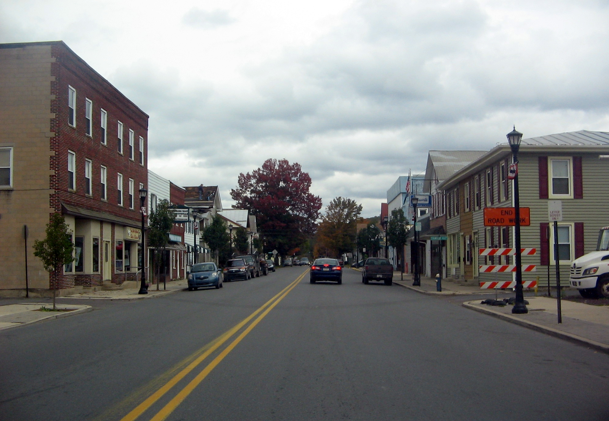 North Main Street (Pennsylvania Route 405) in the borough of Hughesville, Lycoming County, Pennsylvania in the USA